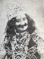 A scene from indian movie "Bhakta Prahlada" (1932)